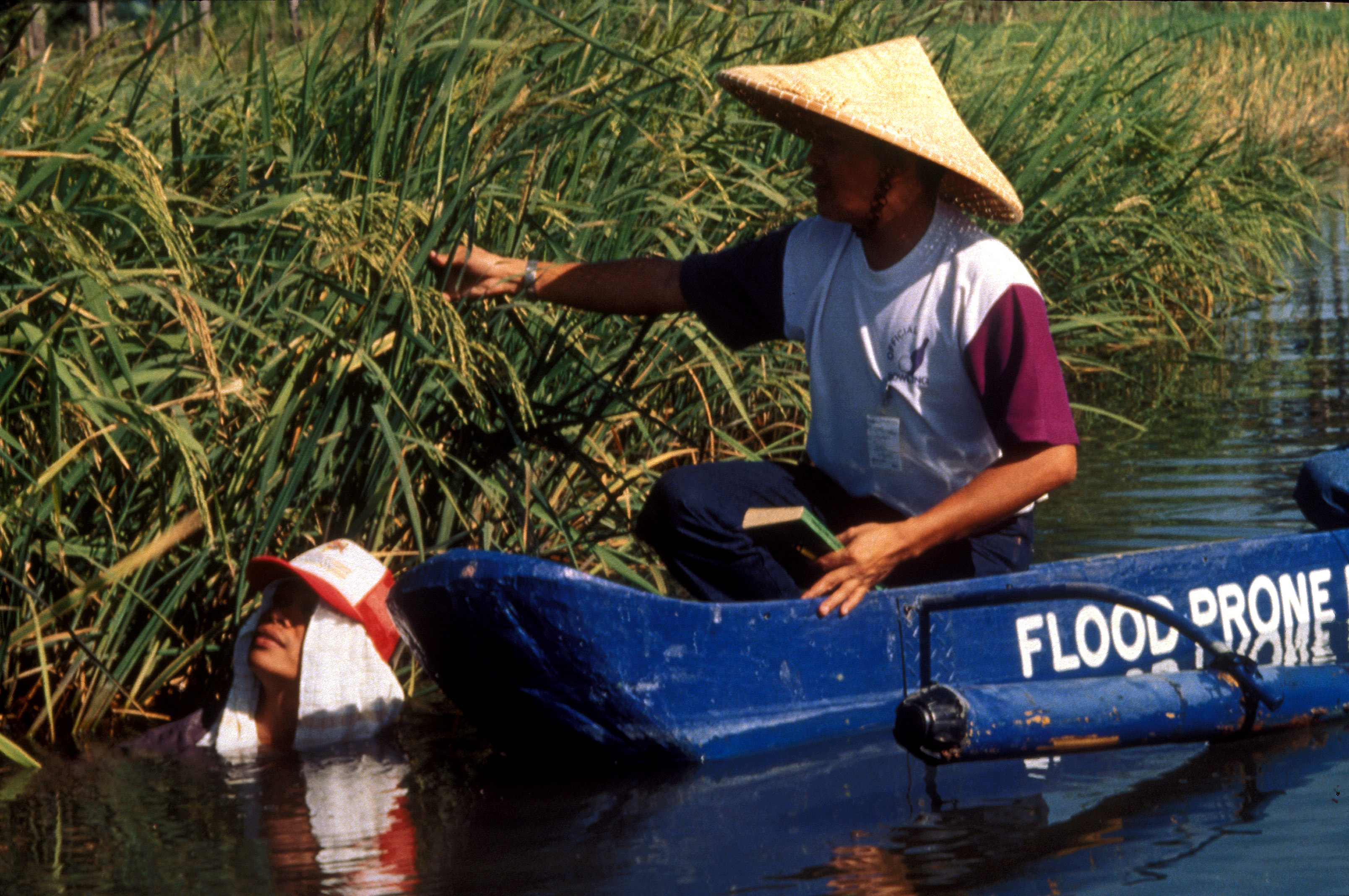 International Rice Research Institut researchers checking the panicles of a deep water rice variety. Taken at Calabarzon Bay Philippines